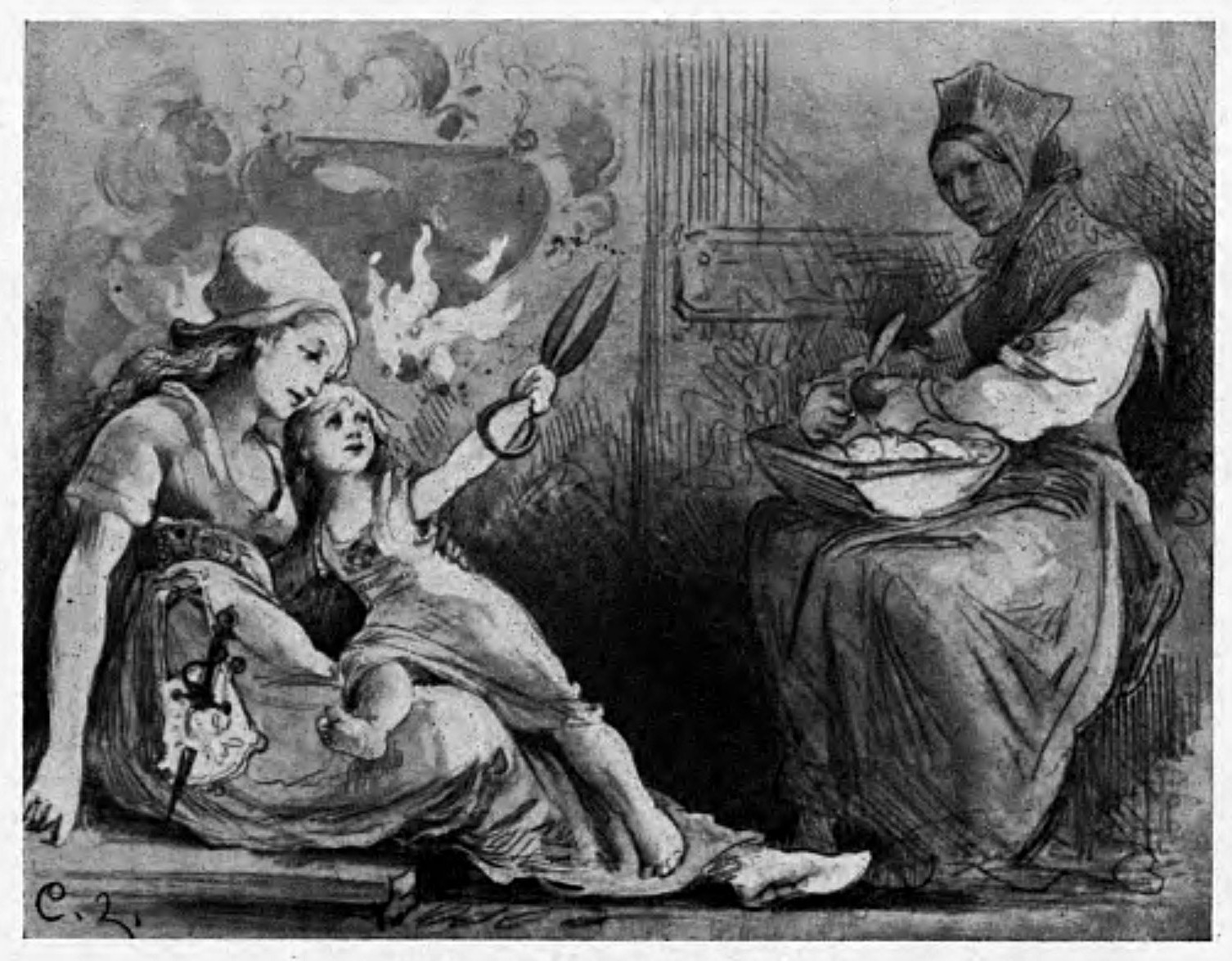 Illustration by Carl Larsson of the book "Folksagor" by Asbjörnsen and Moe, Stockholm 1927